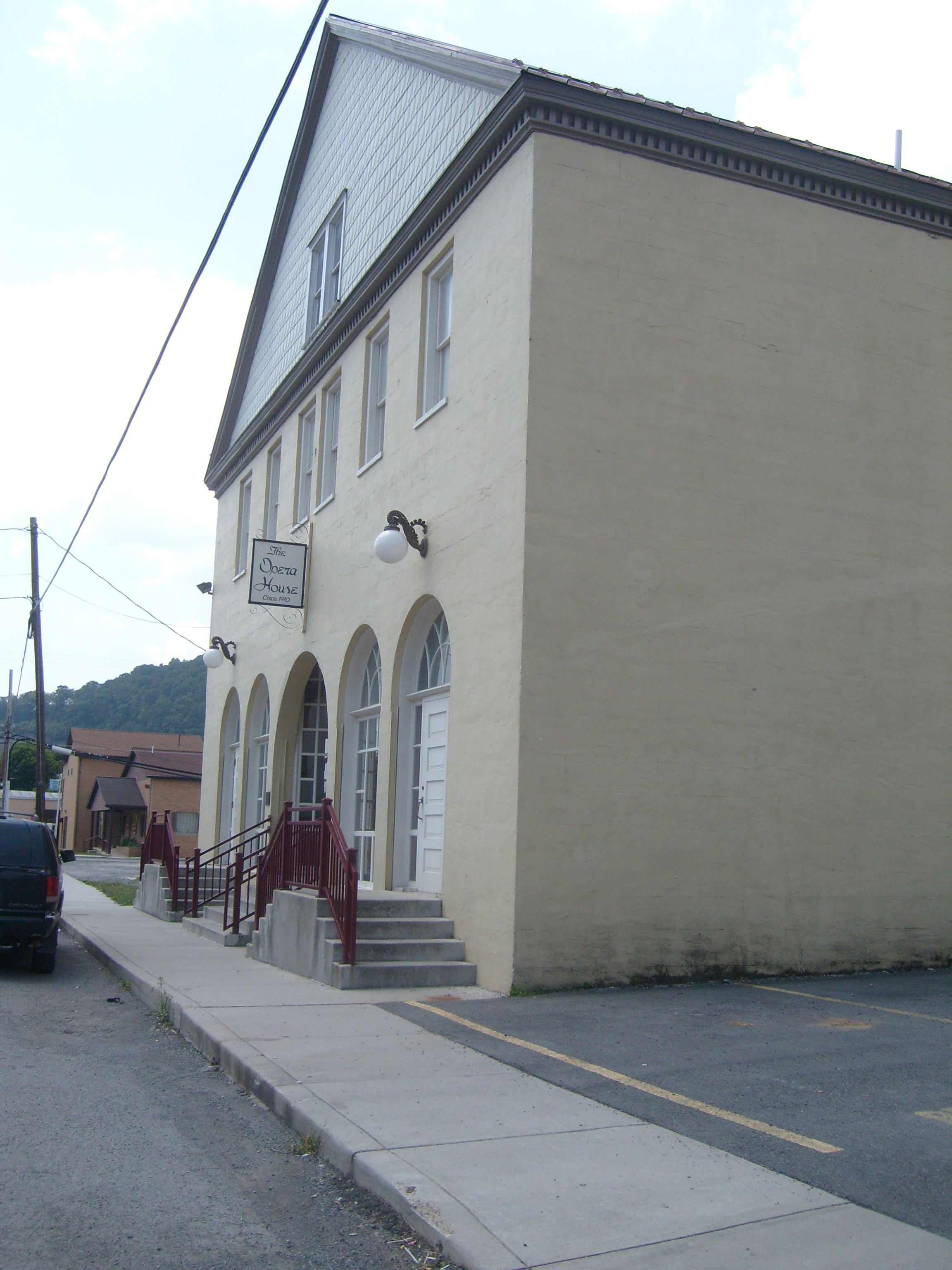 Pocahontas County Opera House in Marlinton, WV. Built in 1910 during railroad boom.